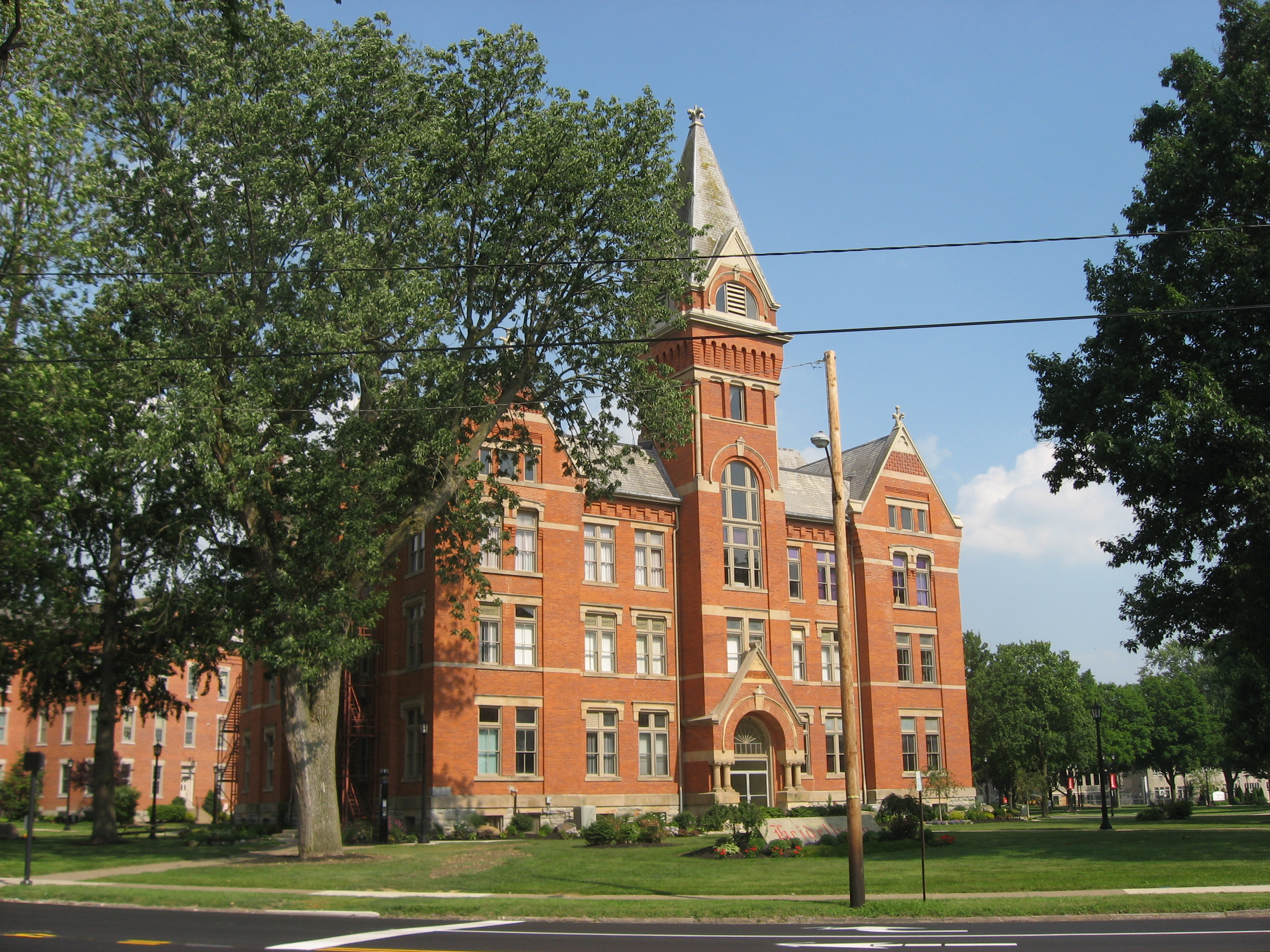 Front of University Hall, located along E. Market Street (State Routes 18 and 101) on the campus of Heidelberg University in Tiffin, Ohio, United States. Built in 1884, it is listed on the National Register of Historic Places.